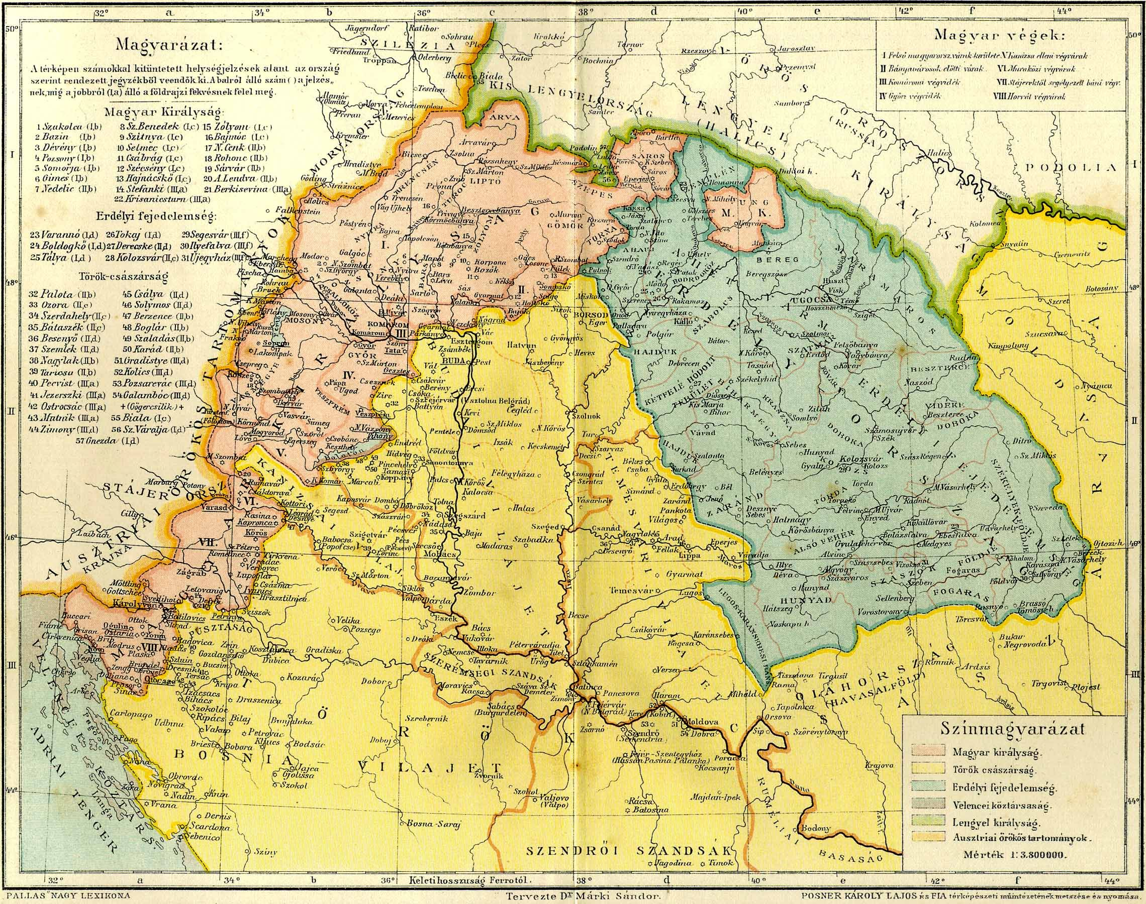 Hungary and Transylvania in 1629